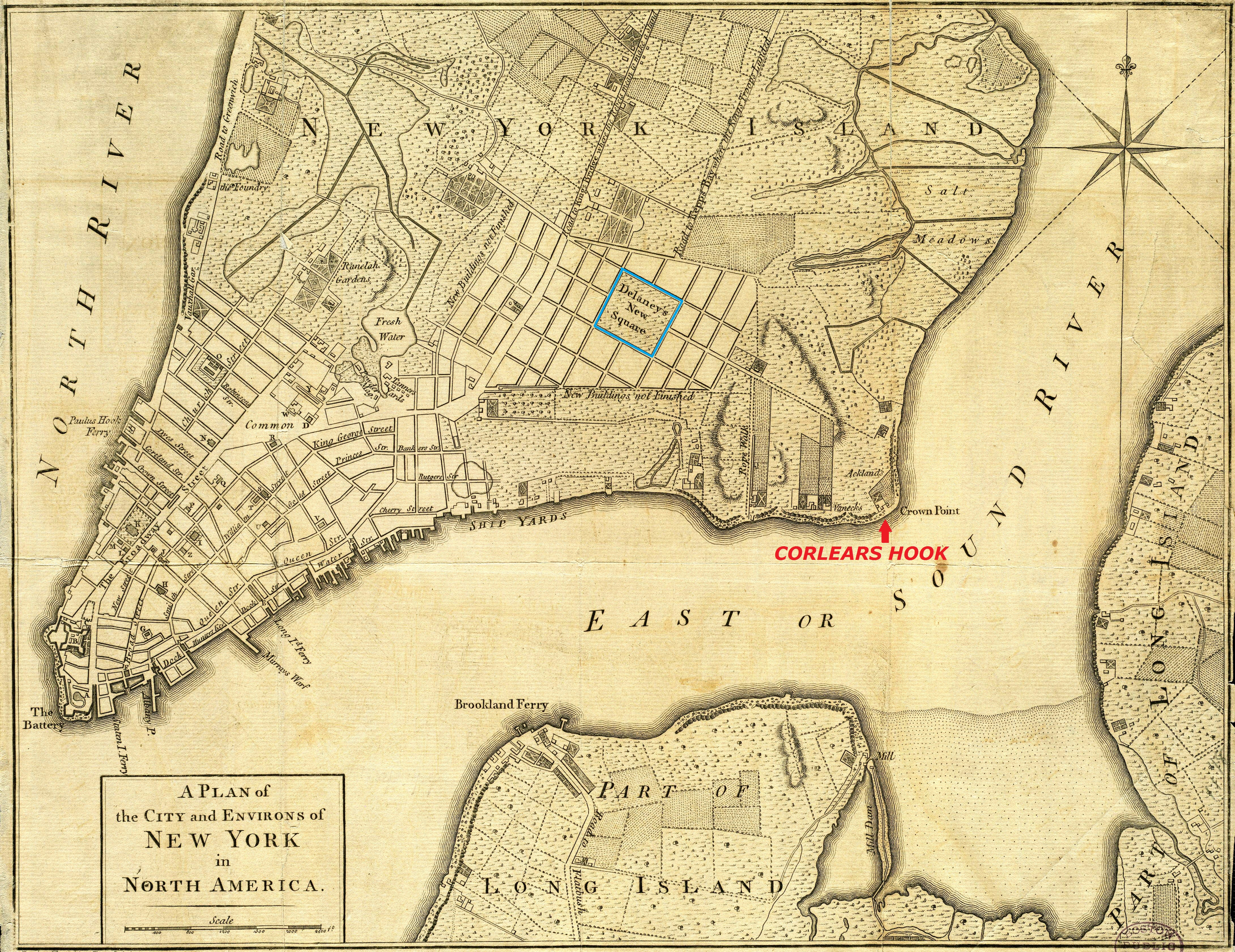 A 1776 map of New York City. Map has had border cropped and color adjusted from original. This version had Corlears Hook labelled and New Delancey Square marked.